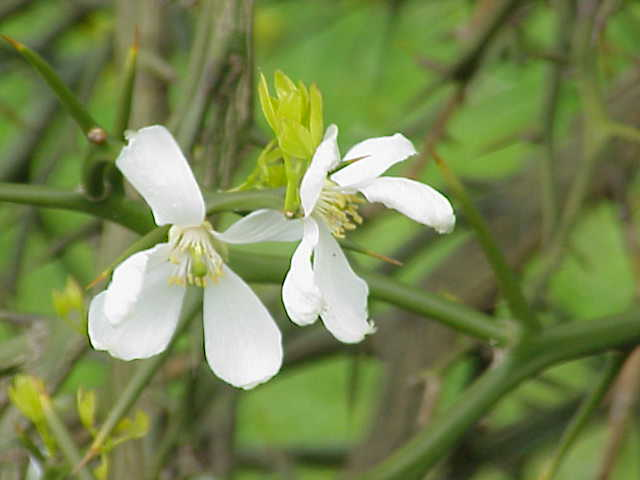 Species: Poncirus trifoliata Family: Image No. 4